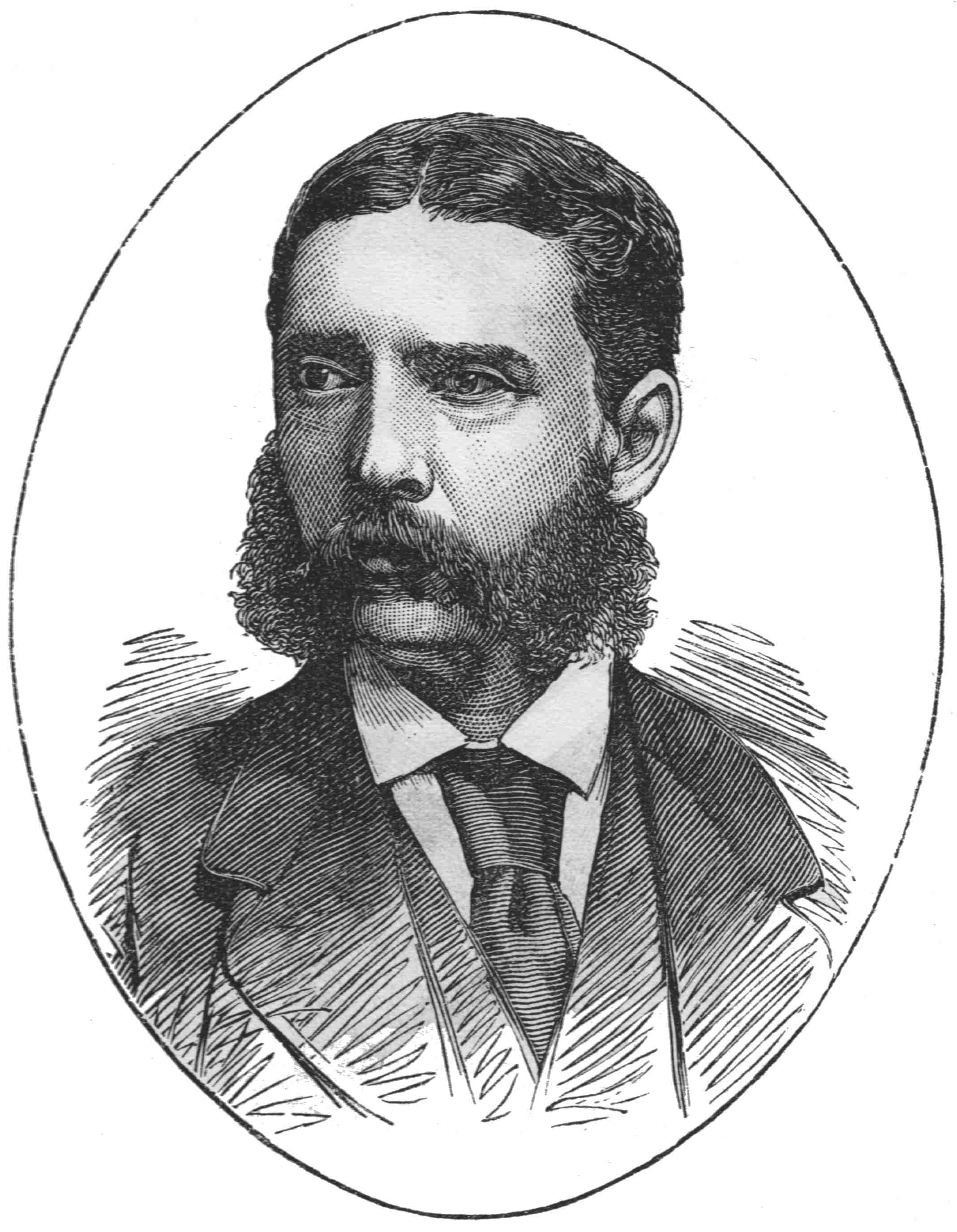 Drawing of Lieutenant Gonville Bromhead (1845-1892) who was second in command of troops stationed at Rorke's Drift during the Anglo-Zulu wars in January 1879, where he won a VC.